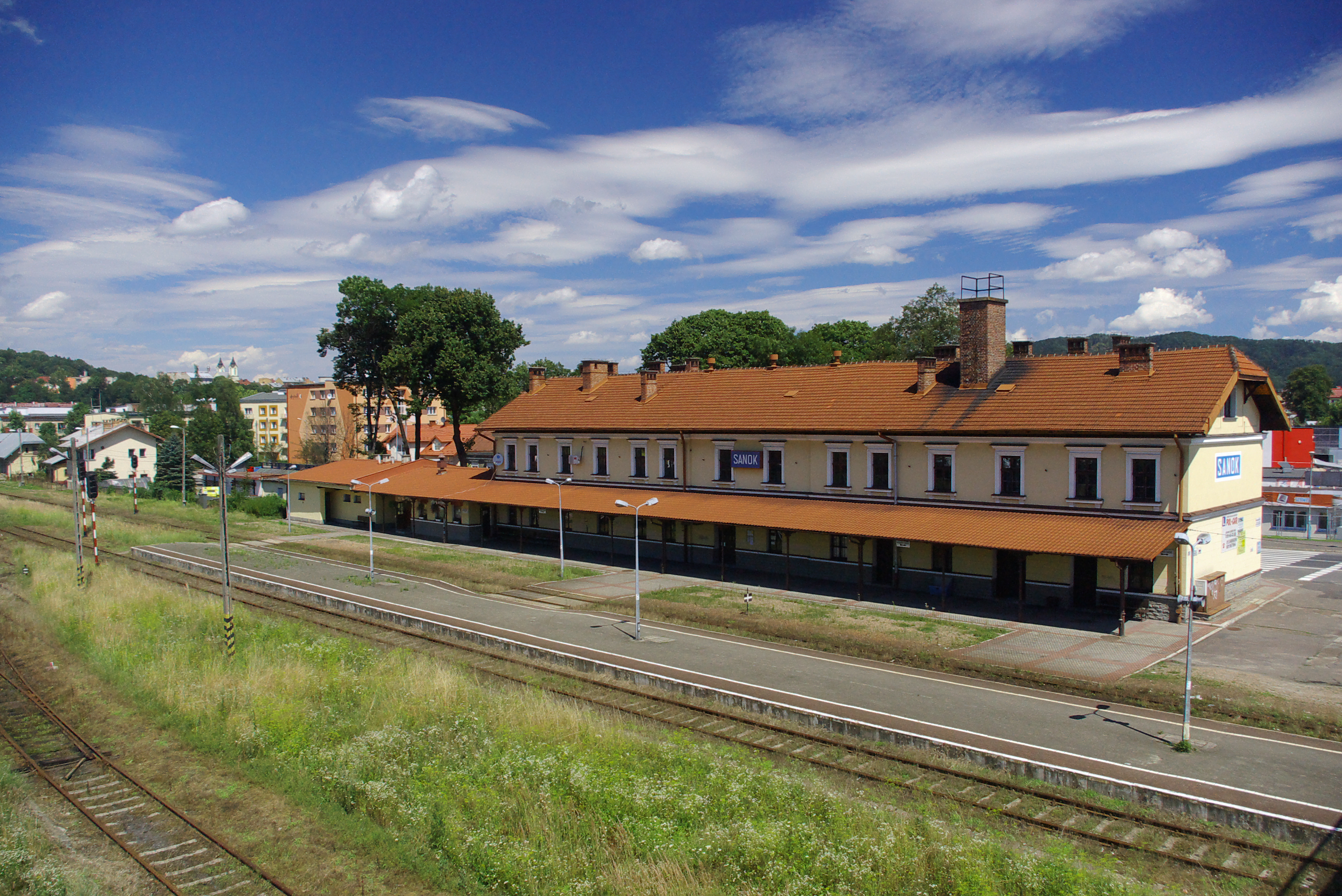 Main railway station in Sanok, Poland